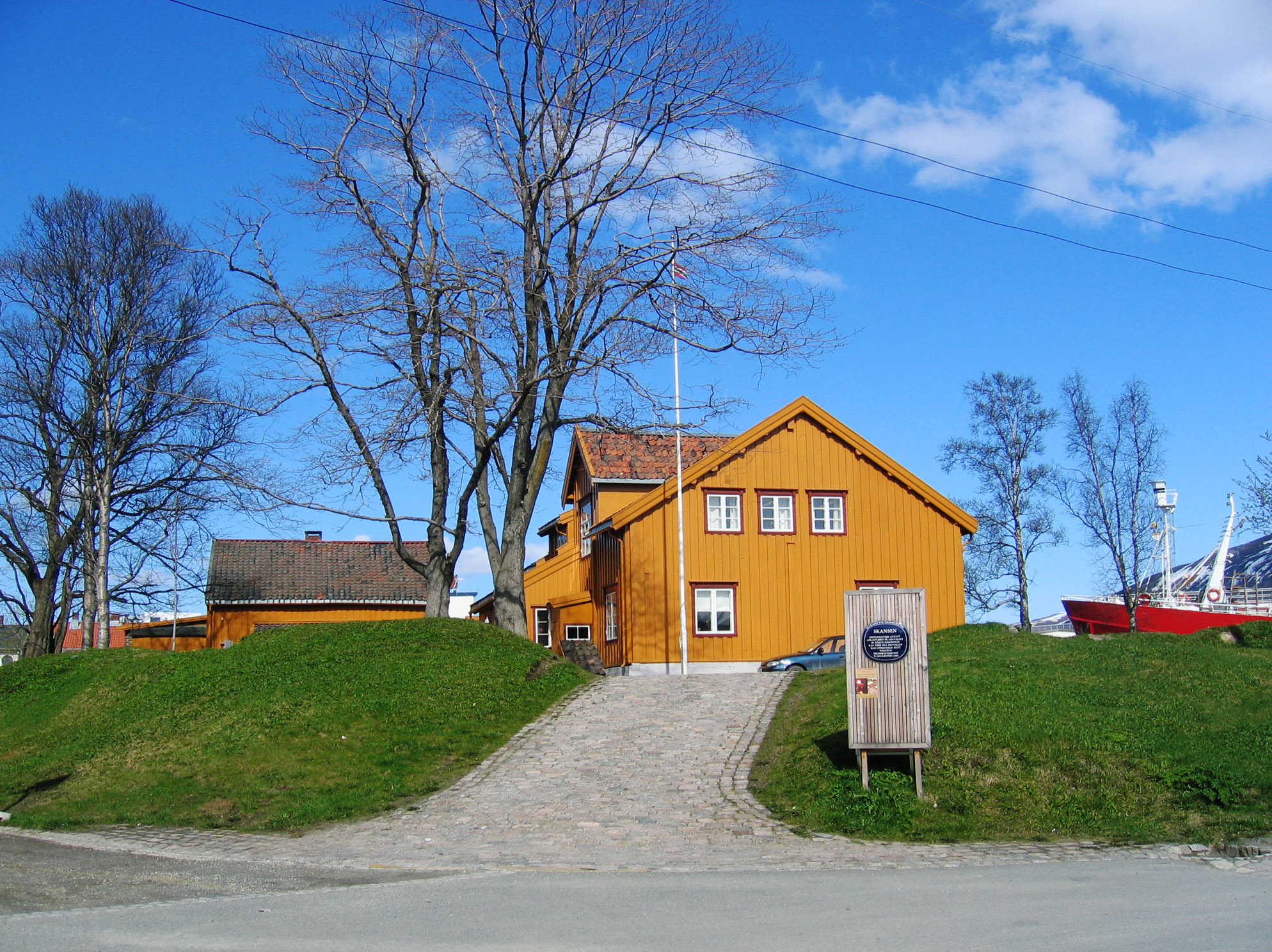 Skansen in Tromsø, Norway.